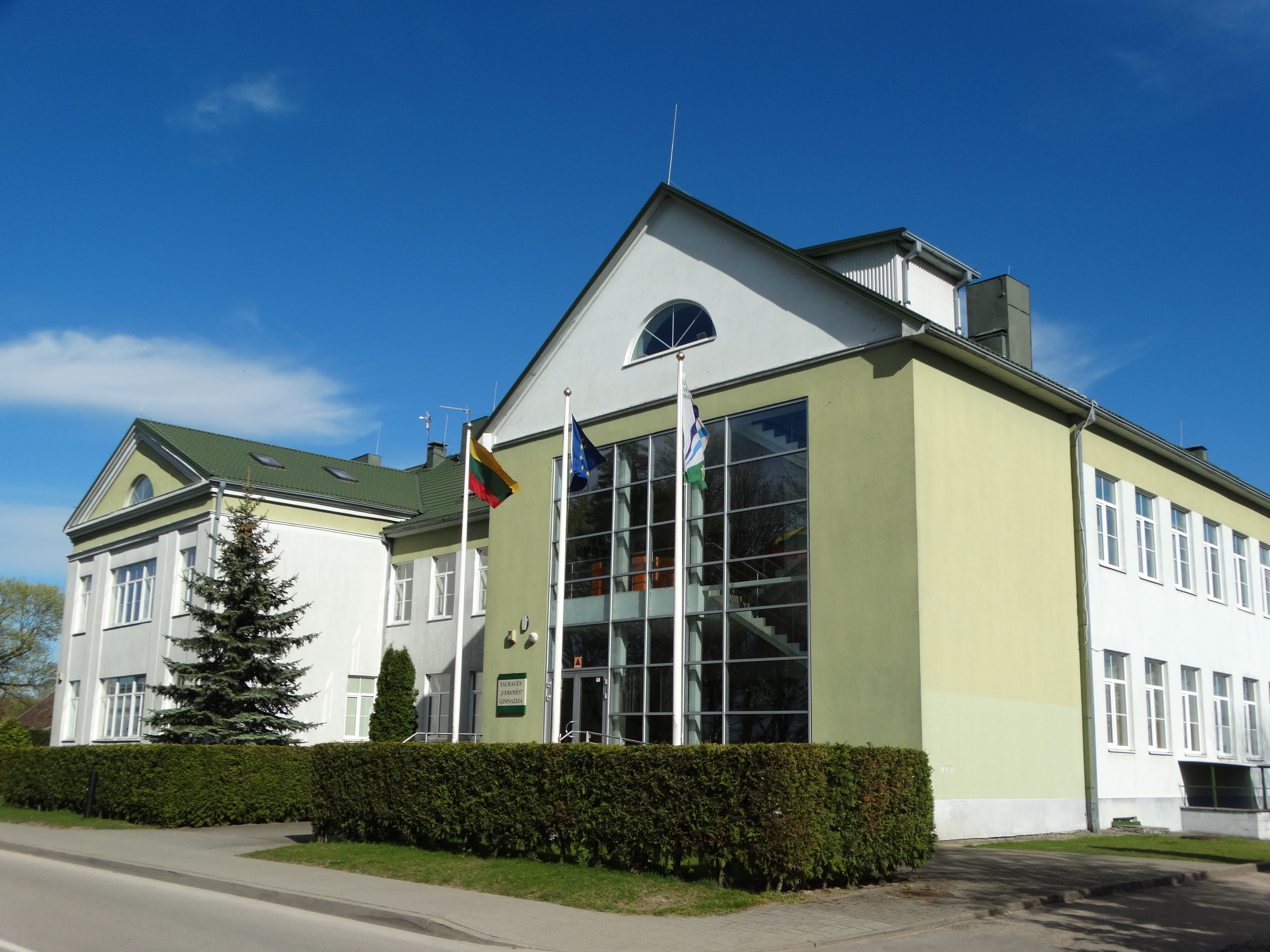 Versmė Gymnasium, Tauragė, Lithuania